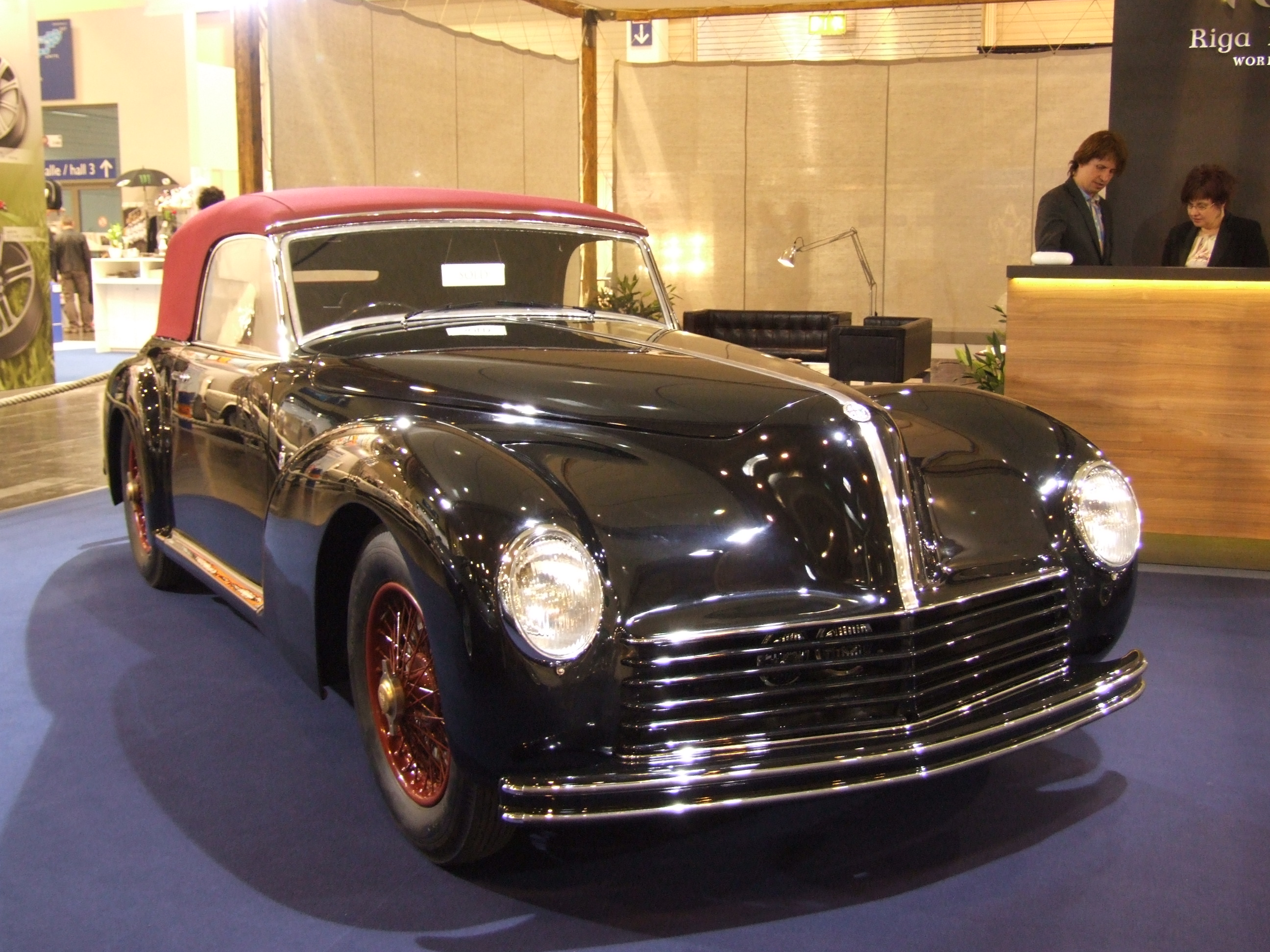 For more photos visit